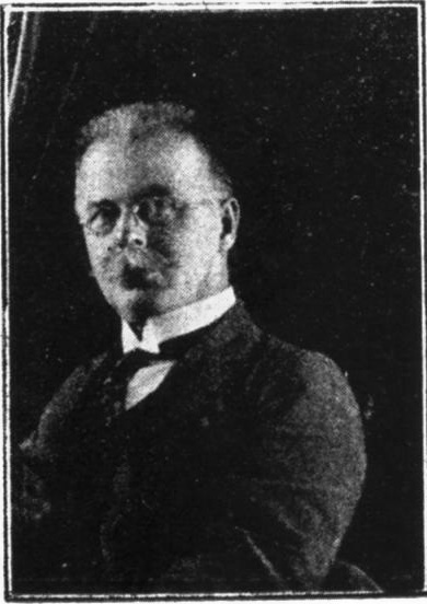 Juliusz Morawski, Polish psychiatrist